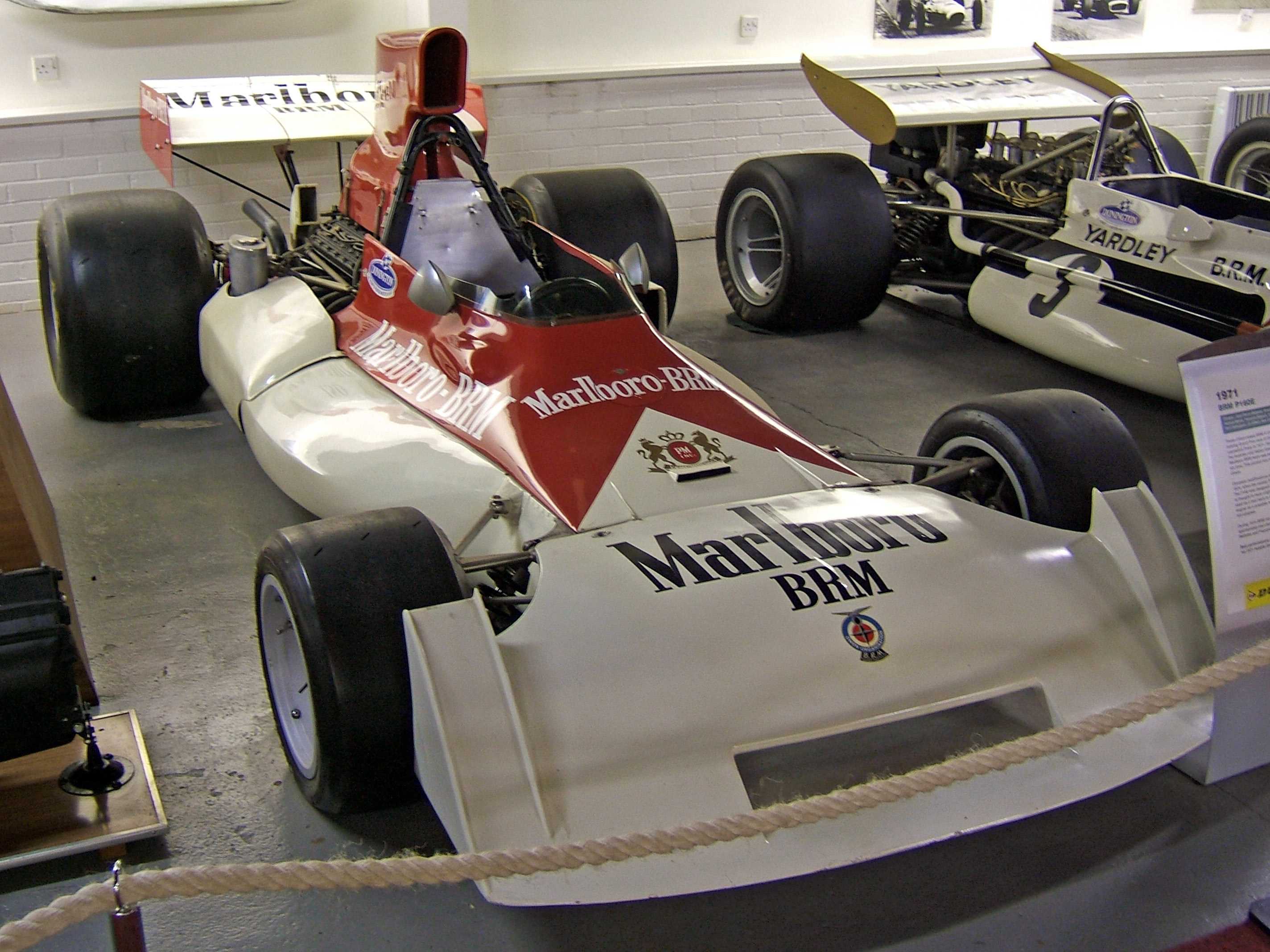 A BRM P160 Formula One car of 1971. In the Donington Grand Prix Collection museum, Leics., UK.